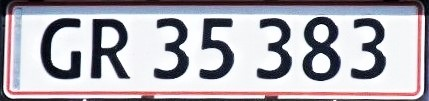 Greenland license plate